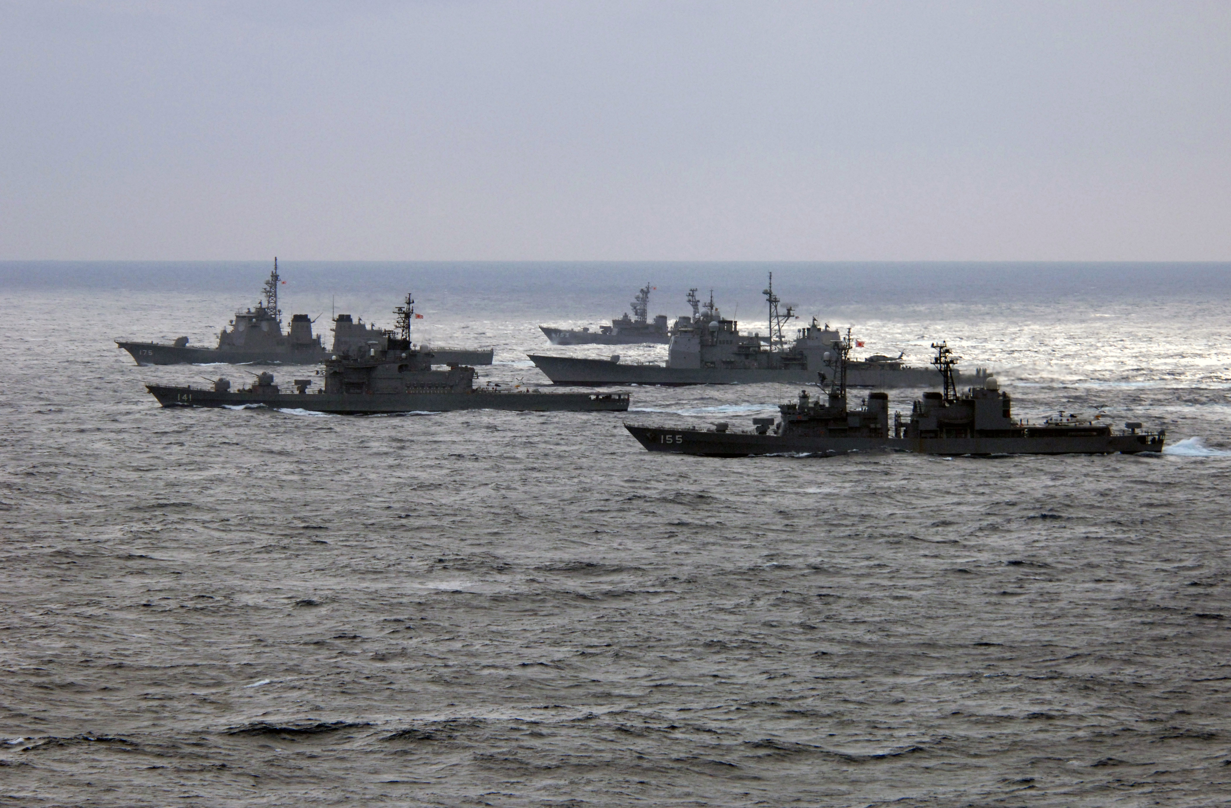 Japanese Maritime Self Defense Force (JMSDF) ships sail with an U.S. Navy ship in formation during a photo exercise in the Philippine Sea on March 18, 2007. Pictured foreground-to-background: the JMSDF Asagiri Class Guided Missile Destroyer JS Hamagiri (DDG 155), the JMSDF Destroyer JS Haruna (DDH 141); the U.S. Navy Arleigh Burke Class (Flight I) Guided Missile Destroyer (Aegis) USS Russell (DDG 59); the JMSDF Kongou Class Guided Missile Destroyer JS Myoukou (DDG 175); and the JMSDF Asagiri Class Guided Missile Destroyer JS Yuugiri (DDG 153). (U.S. Navy photo by Chief Mass Communication Specialist Spike Call) (Released)